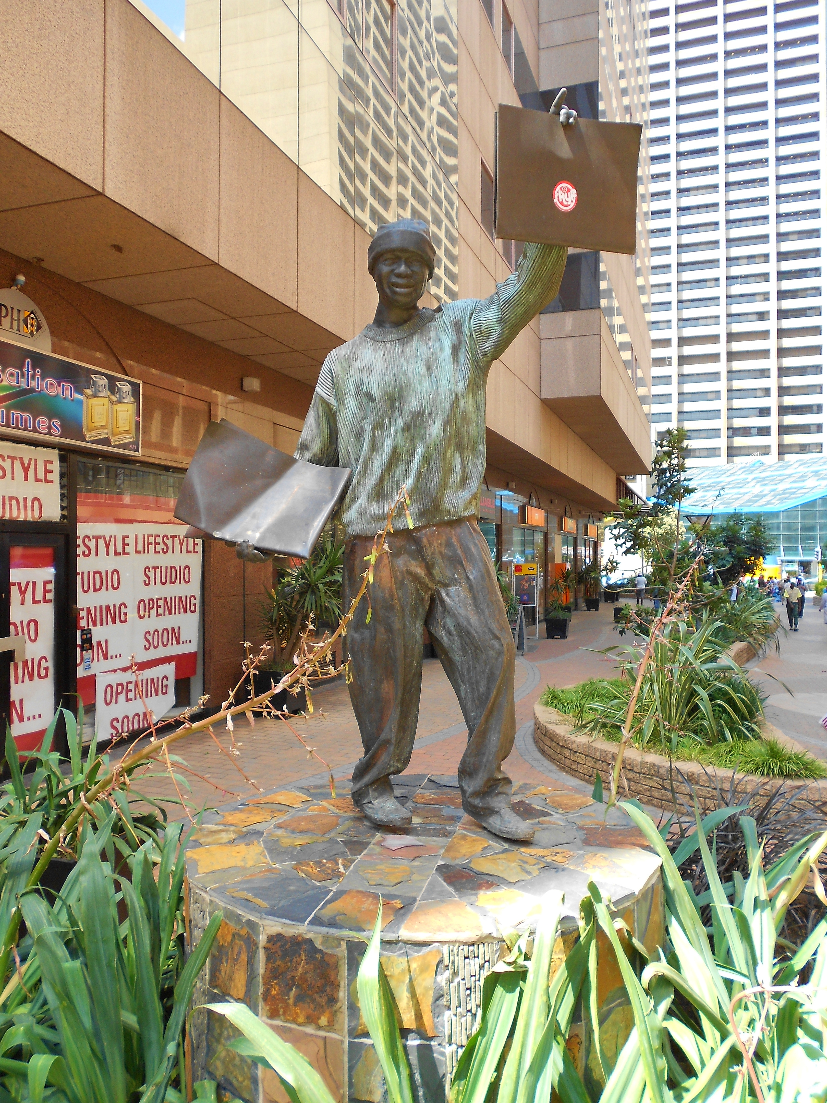 A public art in Johannesburg CBD depicting a newspaper boy. This media shows a South African Protected Site with SAHRA file reference 9/2/228/0243.